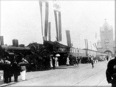 Inauguration of Kaiserbrücke.